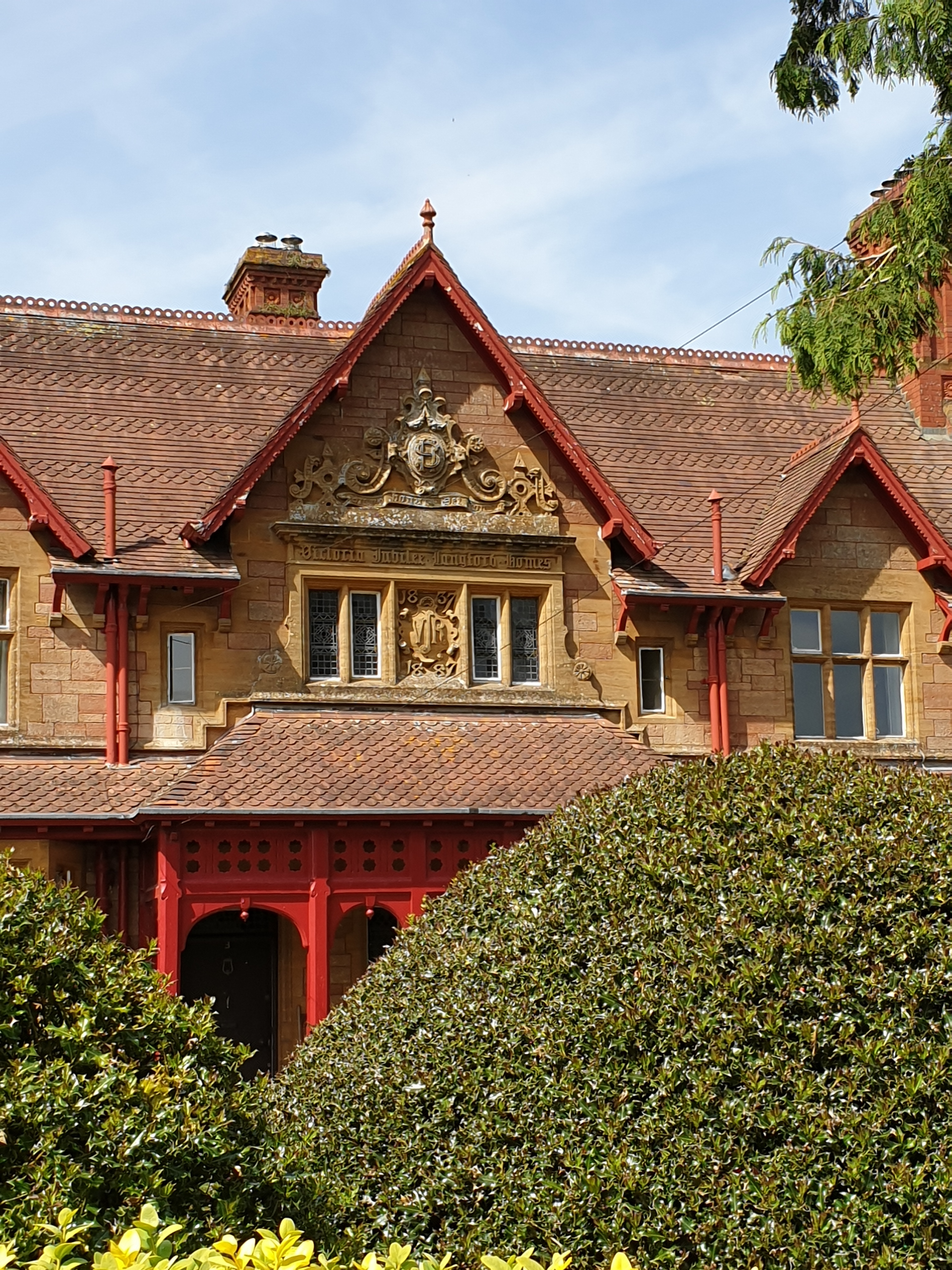 Sidney Hill's Coat of Arms over the entrance to Victoria Jubilee Langford Homes